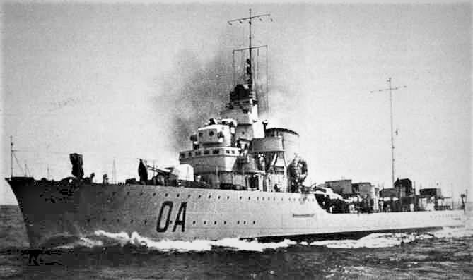 The Regia Marina ship Alfredo Oriani (OA) of Oriani-class destroyer in navigation.